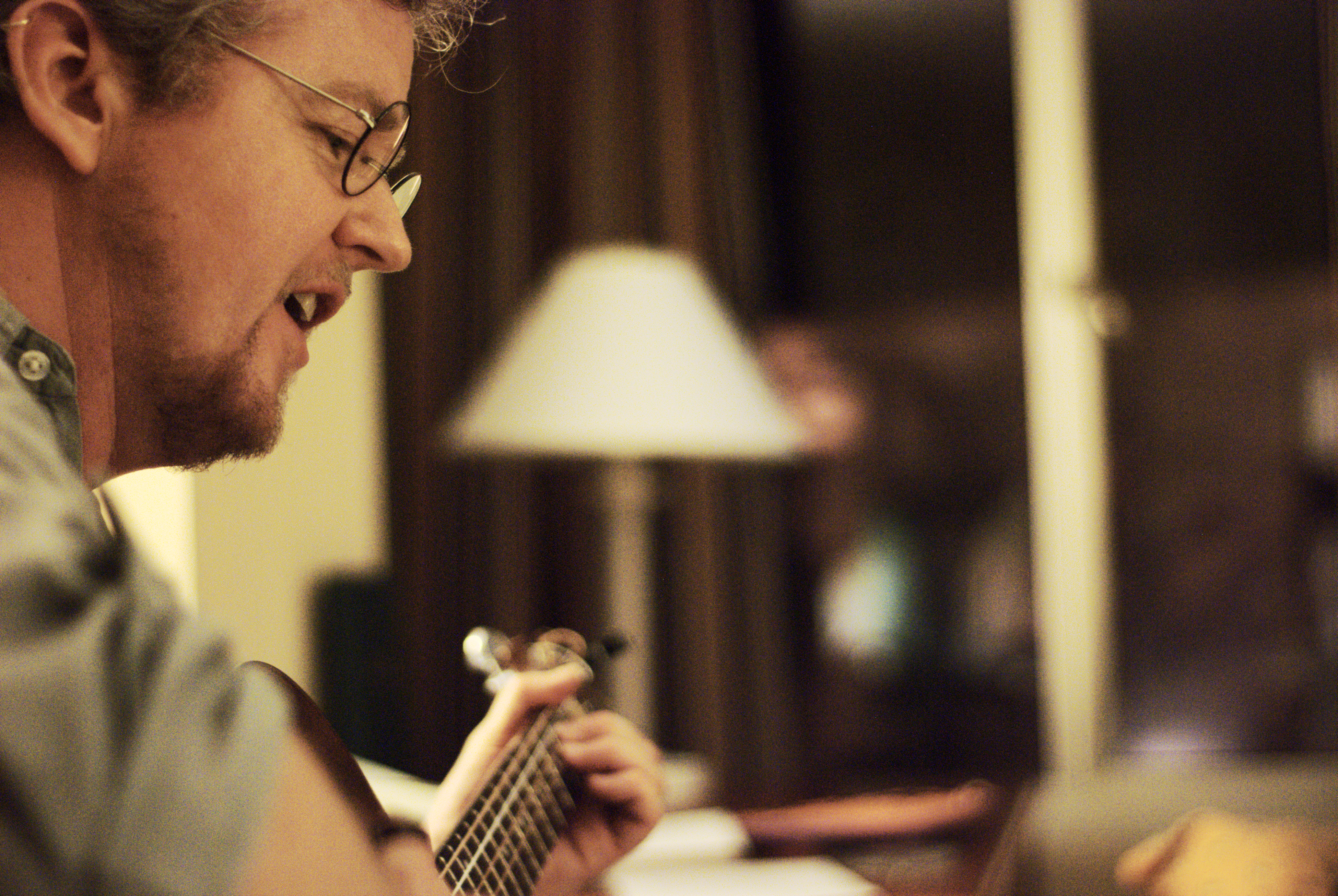 Alexander James Adams rehearsing at the Conflict filk convention.